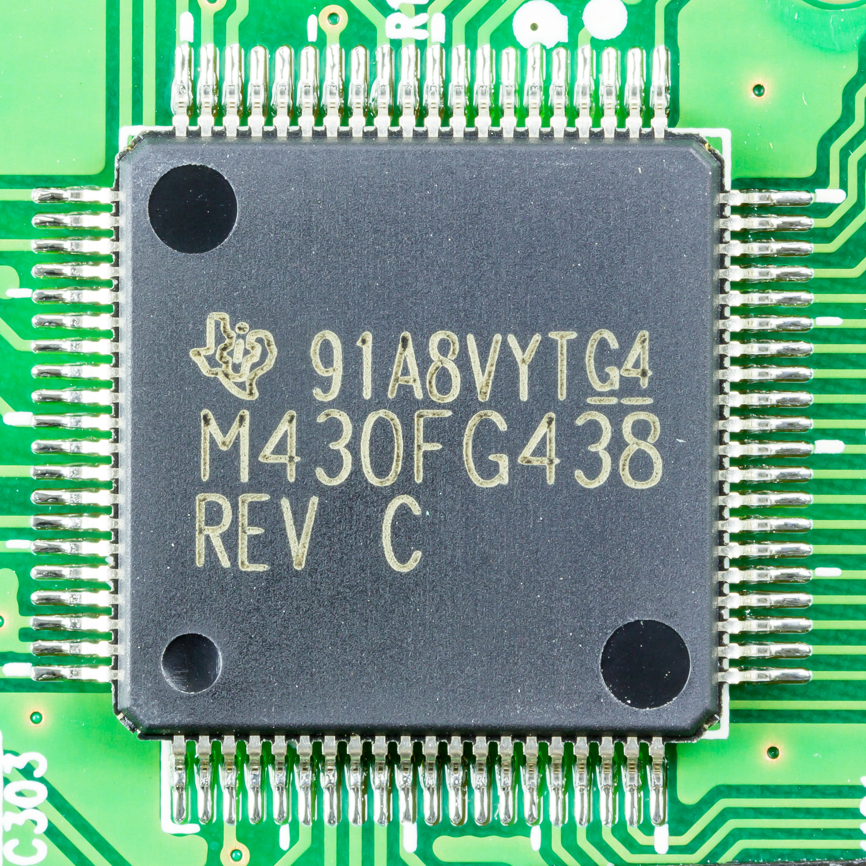 Aktivmed GlucoCheck Comfort - Texas Instruments M430FG438 - Mixed-Signal Microcontroller MSP430FG438: 16-Bit Ultra-Low-Power MCU, 48KB Flash, 2KB RAM, 12-Bit ADC, Dual DAC, DMA, 3 OPAMP, 128 Seg LCD